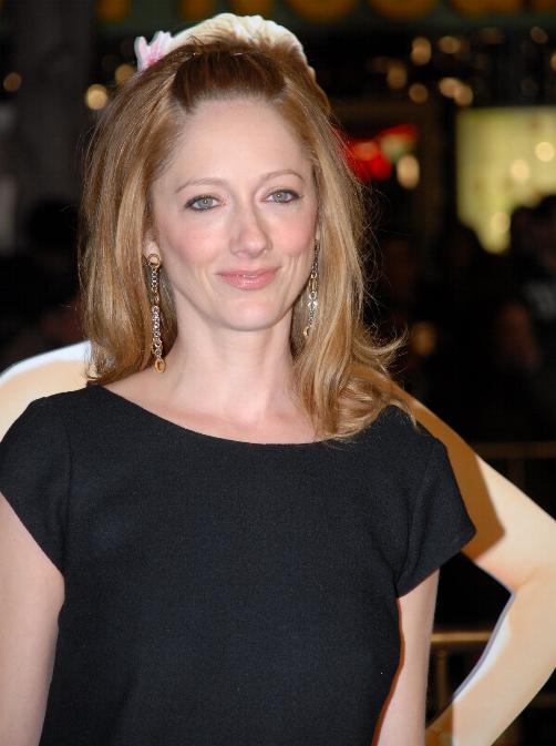 January 7, 2008 - 27 Dresses Premiere in Westwood